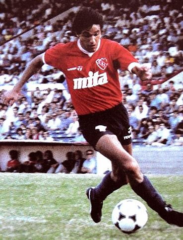 Jorge Burruchaga while playing for Independiente.